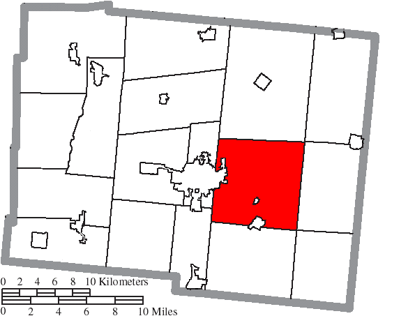 Map of the municipal and township boundaries of Logan County, Ohio, United States, as of the 2000 census, with the location of Jefferson Township highlighted. Township borders are shown only in unincorporated areas in order to differentiate incorporated and unincorporated areas more clearly.